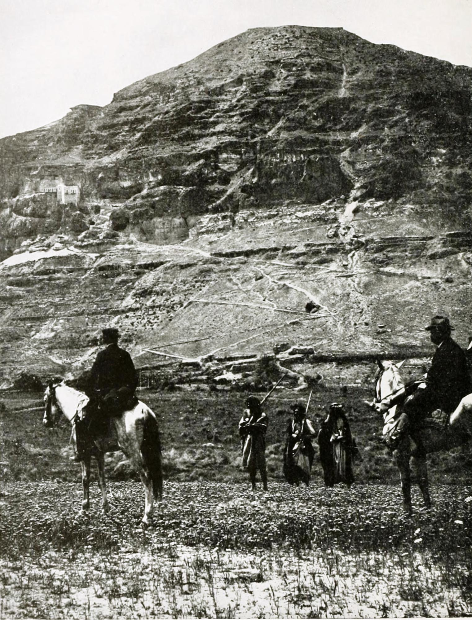 The Mount of Temptation . 1910